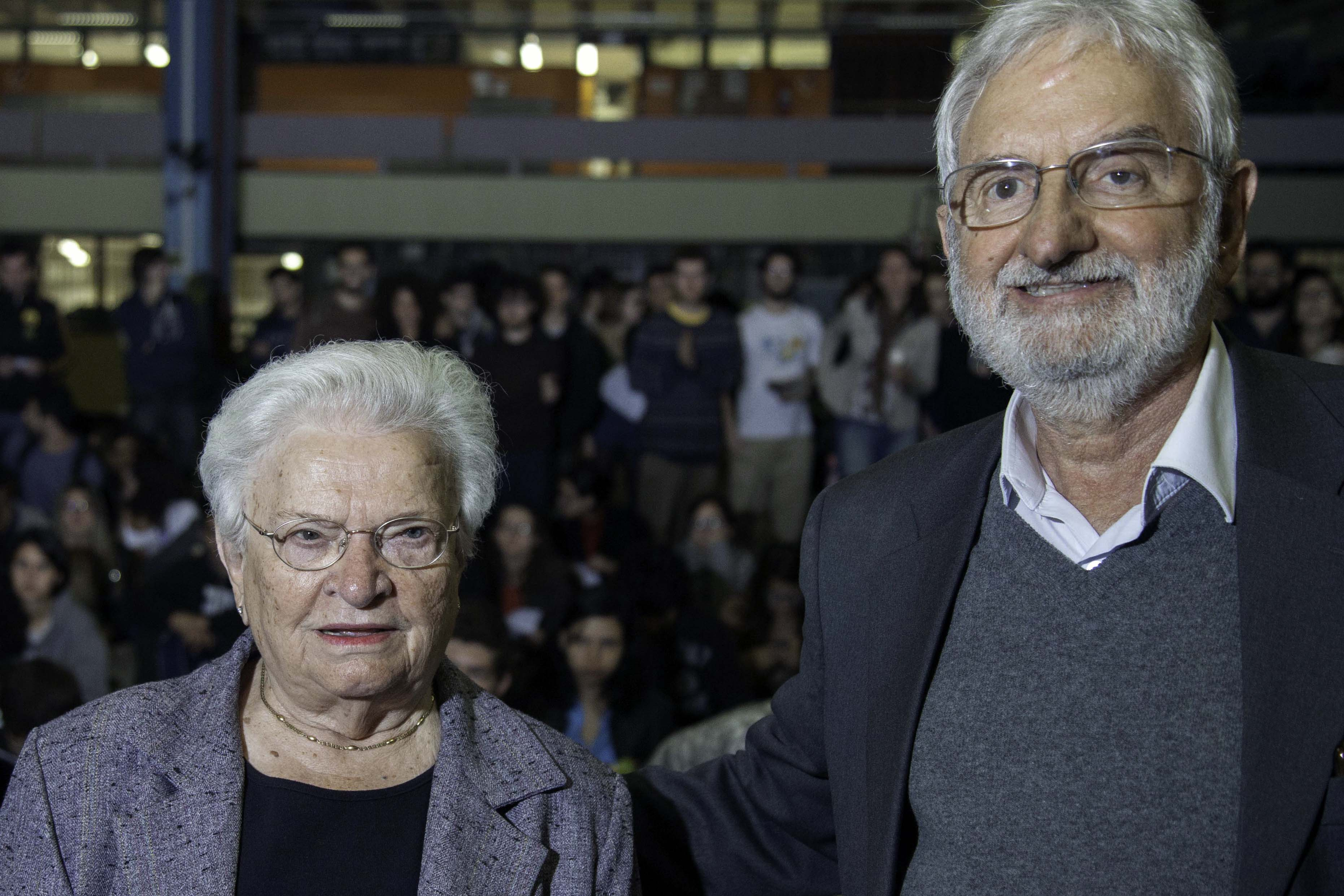 A candidata do PSOL à Prefeitura, Luiza Erundina e o vice Ivan Valente na sabatina do Diretório Central dos Estudantes (DCE), na Universidade de São Paulo, em São Paulo (SP), Brasil.